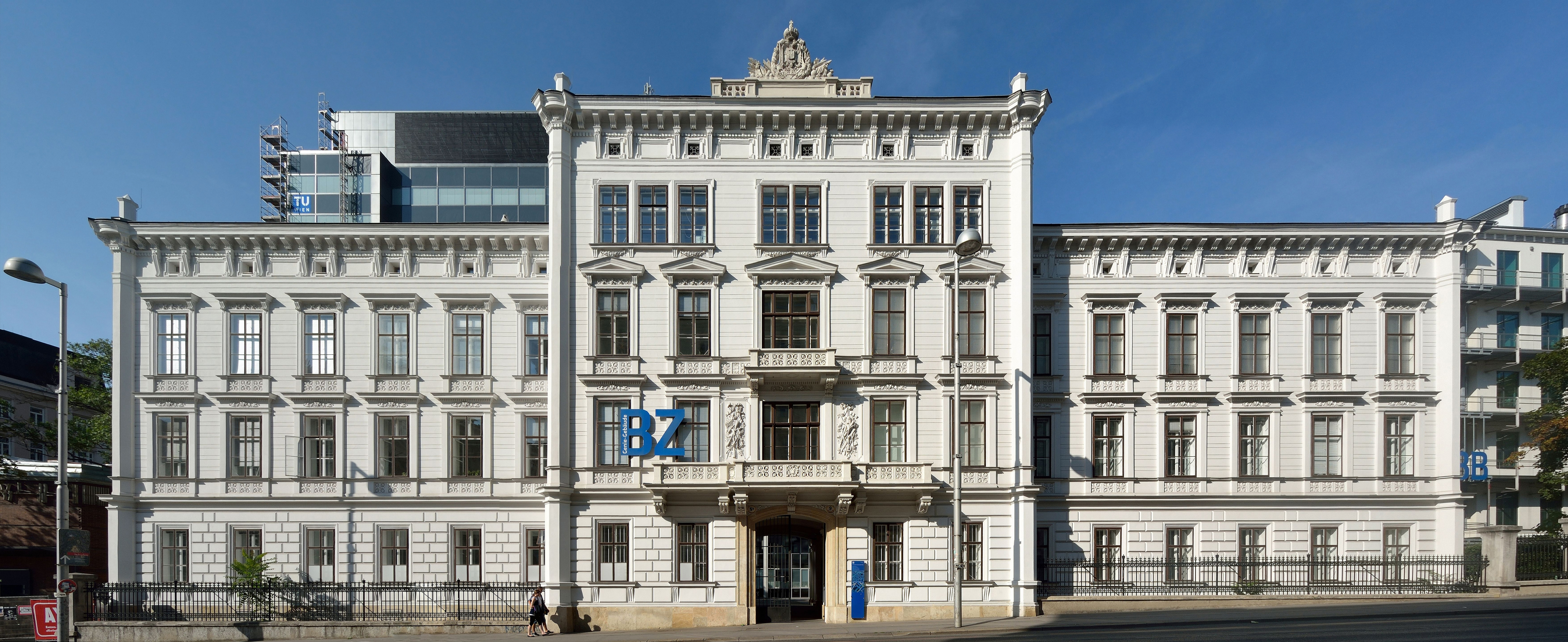 Former Geniedirektion, institute building of Vienna University of Technology, Getreidemarkt 9, 6th district of Vienna